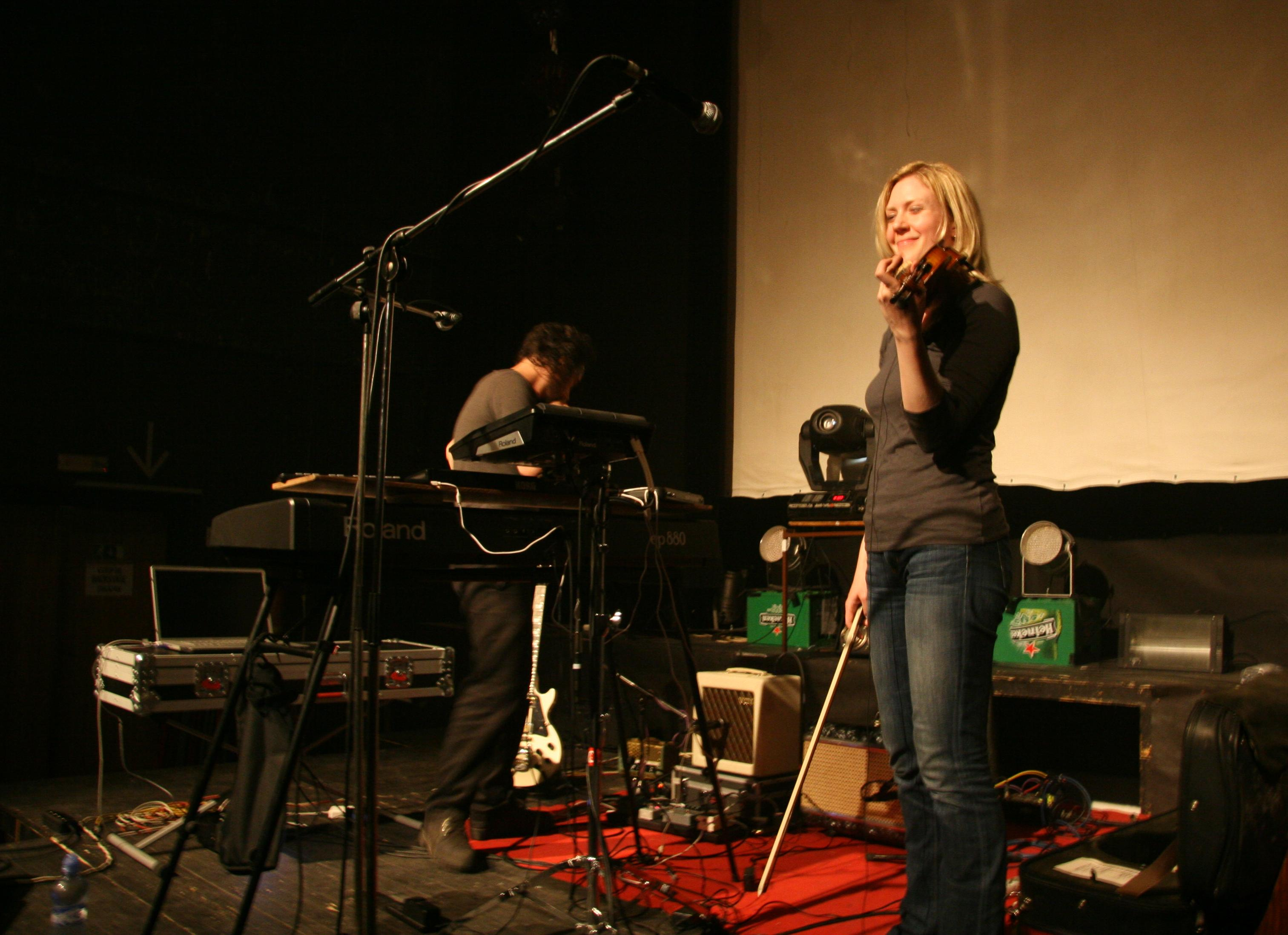 American band A Whisper in the Noise during the concert in Club Fléda, Brno, Czech Republic. 1st May 2012. Project: Fotíme Česko